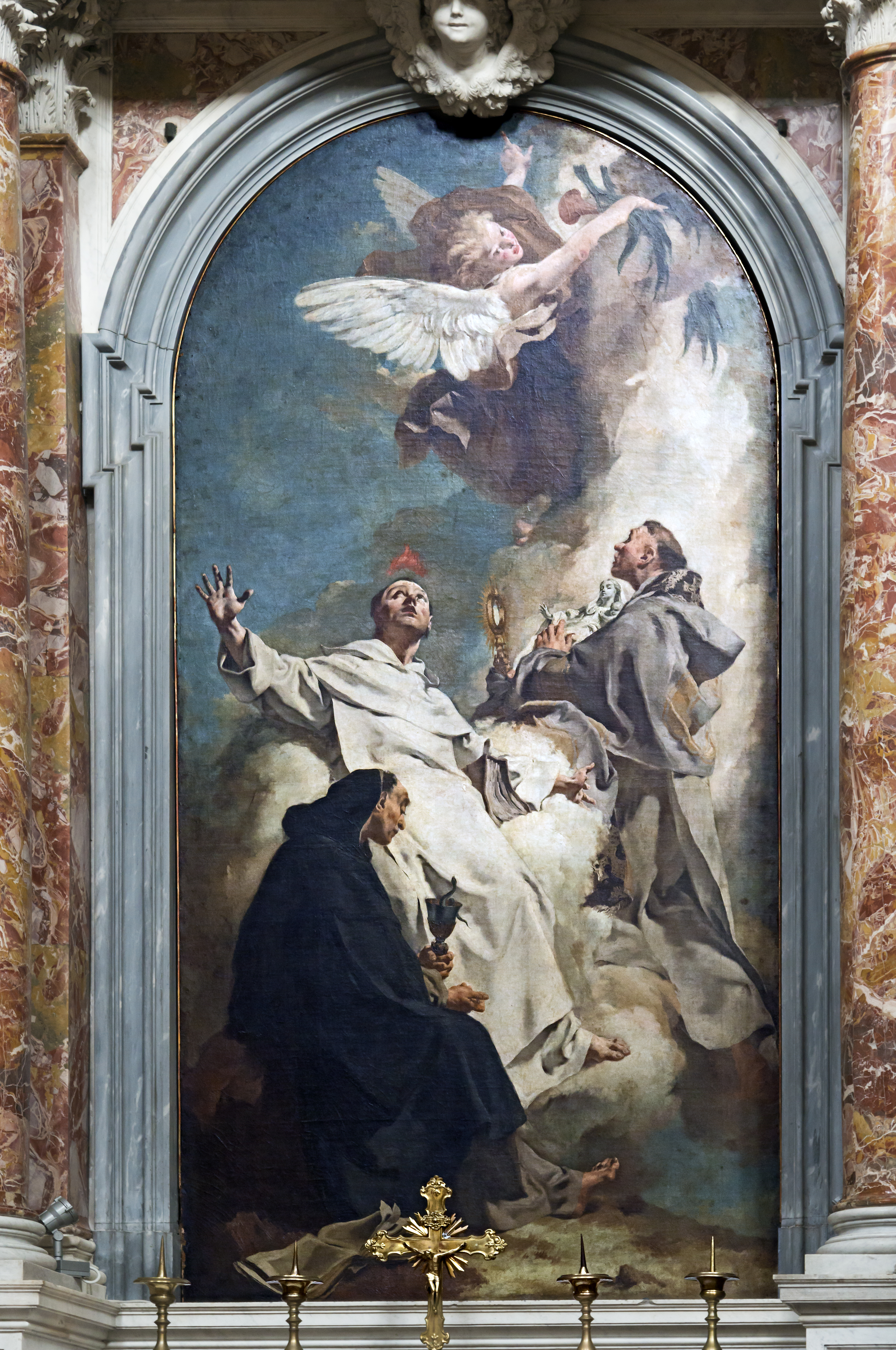 Chuch of Santa Maria del Rosario o dei Gesuati. Three Dominican Saints by Giovanni Battista Piazzetta. Above the third altar is a painting in oils by Giambattista Piazzetta of three male Dominican saints, chosen by the Dominicans to illustrate the missionary activities of their Order. This painting is noteworthy for its sober colouring. Michael Levey writes: "The real triumph of the painting is in its memorably austere tonality." In black in the foreground is St. Louis Bertrand, a Spanish saint who went as a missionary to the Caribbean, where a native priest was said to have tried to poison him (symbolised by the serpent in the chalice which he is holding). Beyond him, in white, is St. Vincent Ferrer, who was said to have appeared to the former in a vision. The third saint is Saint Hyacinth, who went as a missionary to the East. He is holding his attributes, a monstrance and an image of the virgin and child, which he was said to have carried with him into the raging torrent of the Dneister from which he was miraculously saved. 1738.